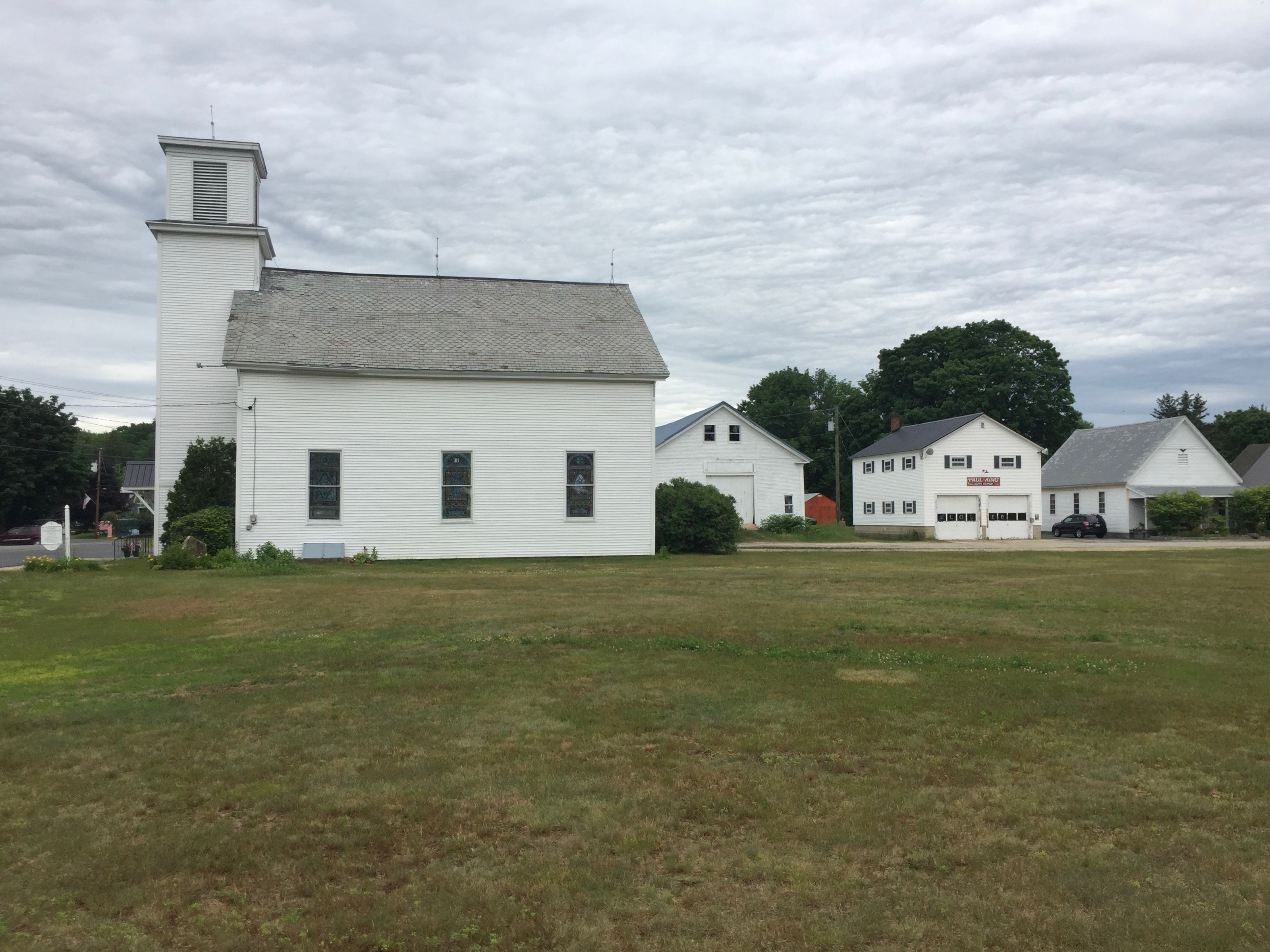 Barnstead Parade Congregational Church, Barnstead, New Hampshire.